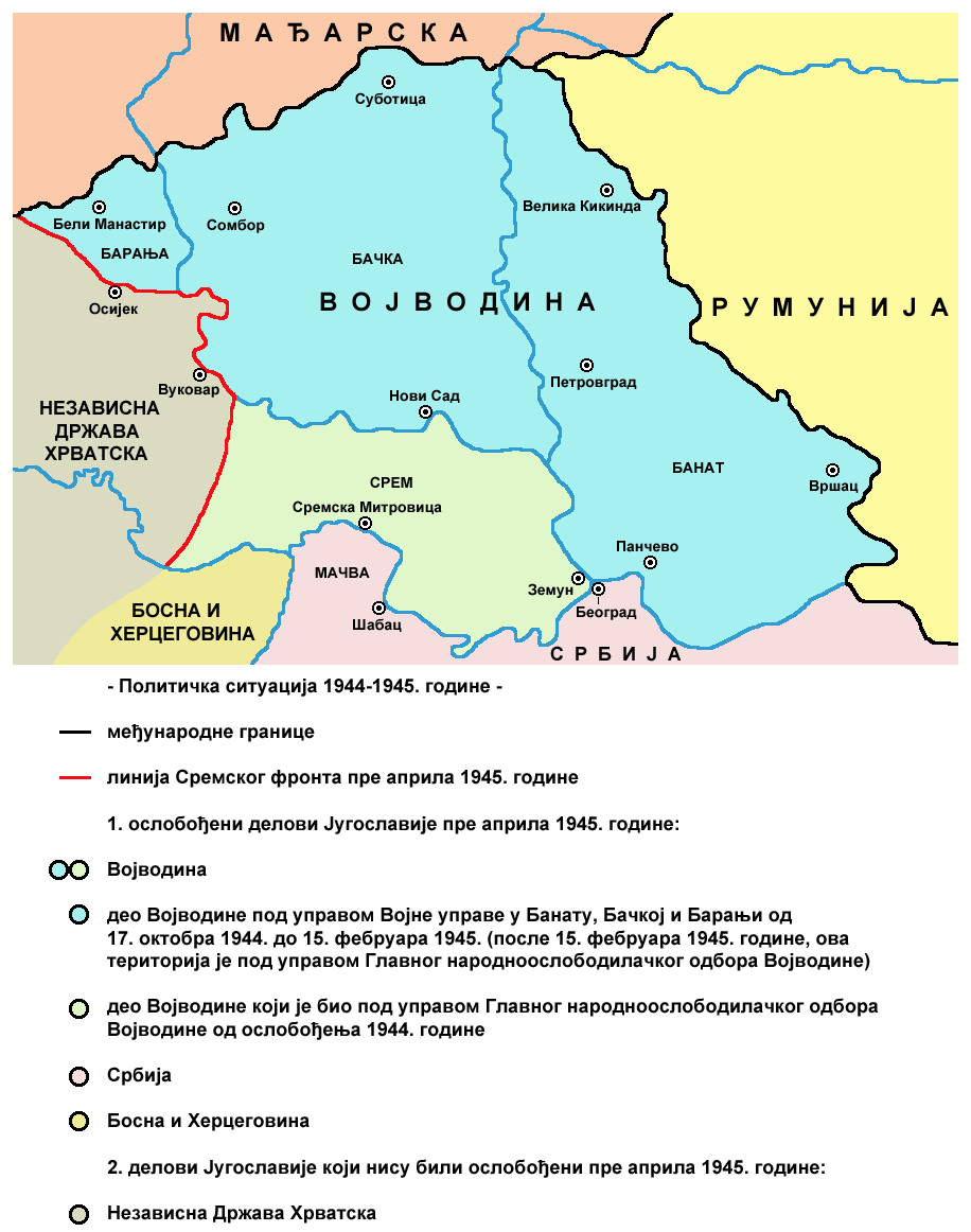 Vojvodina from October 1944 to April 1945 - territory of Military Administration in Banat, Bačka and Baranja and Syrmian frontline (Serbian language version).